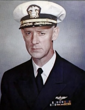 Official Navy portrait of Captain William Edward Ellis, skipper of the USS Forrestal on its shakedown cruise in 1957.